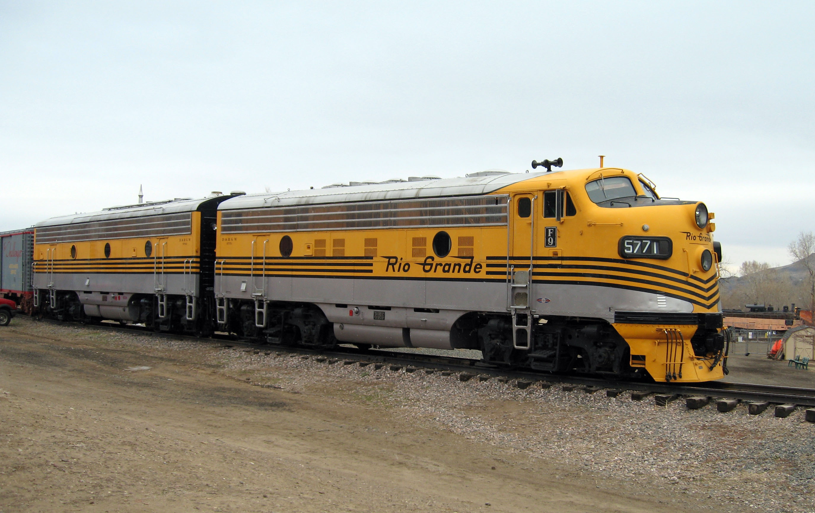 Description at Colorado Railroad Museum: "Denver and Rio Grande Western F9 A&B units, standard gauge, diesel electric locomotives. Built in 1955. Powered the California Zephyrs and Rio Grande Zephyrs. Retired in 1984. Donated to museum by Southern Pacific Lines in 1996."